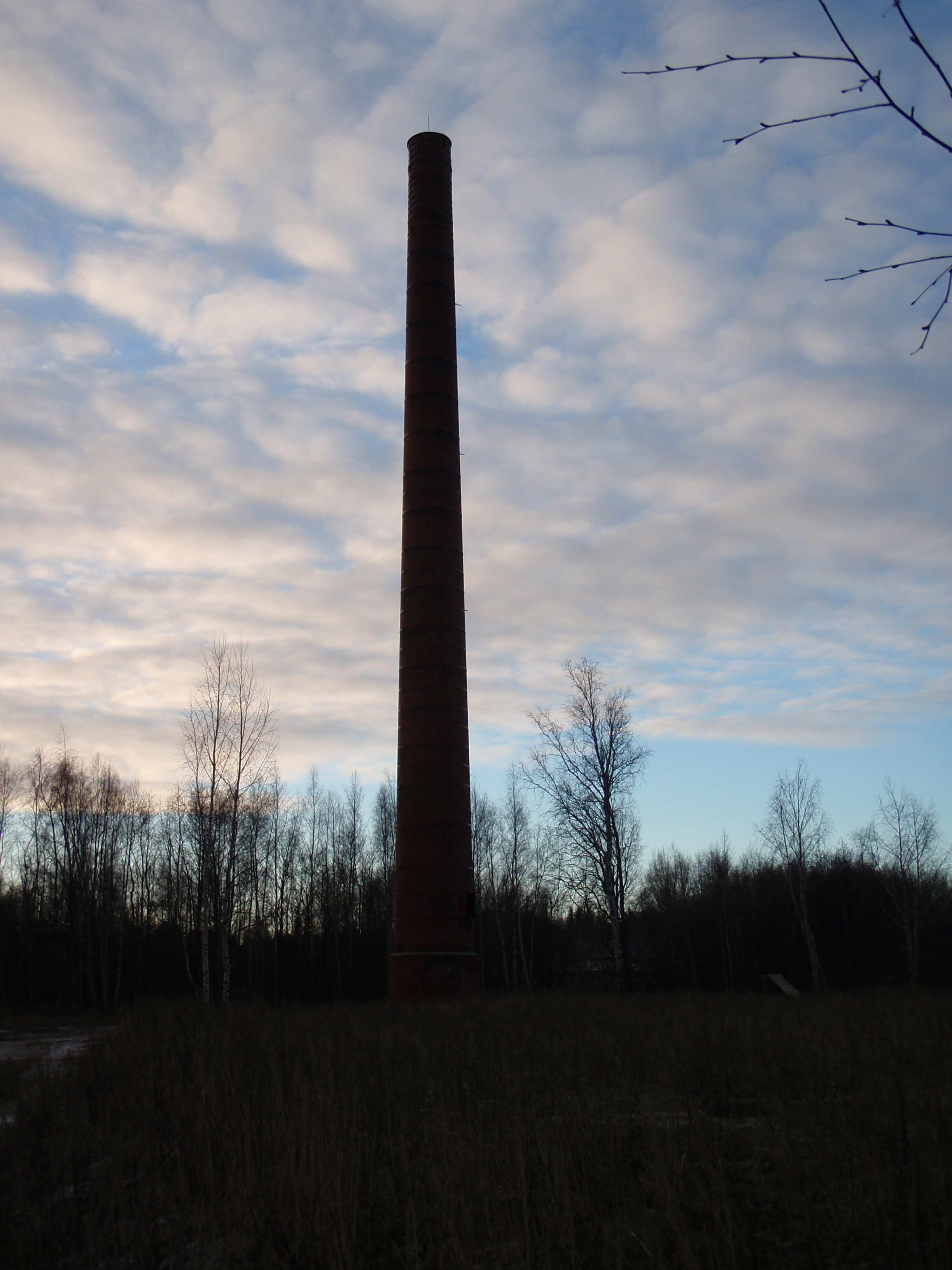 Chimney in Reposaari, Pori.